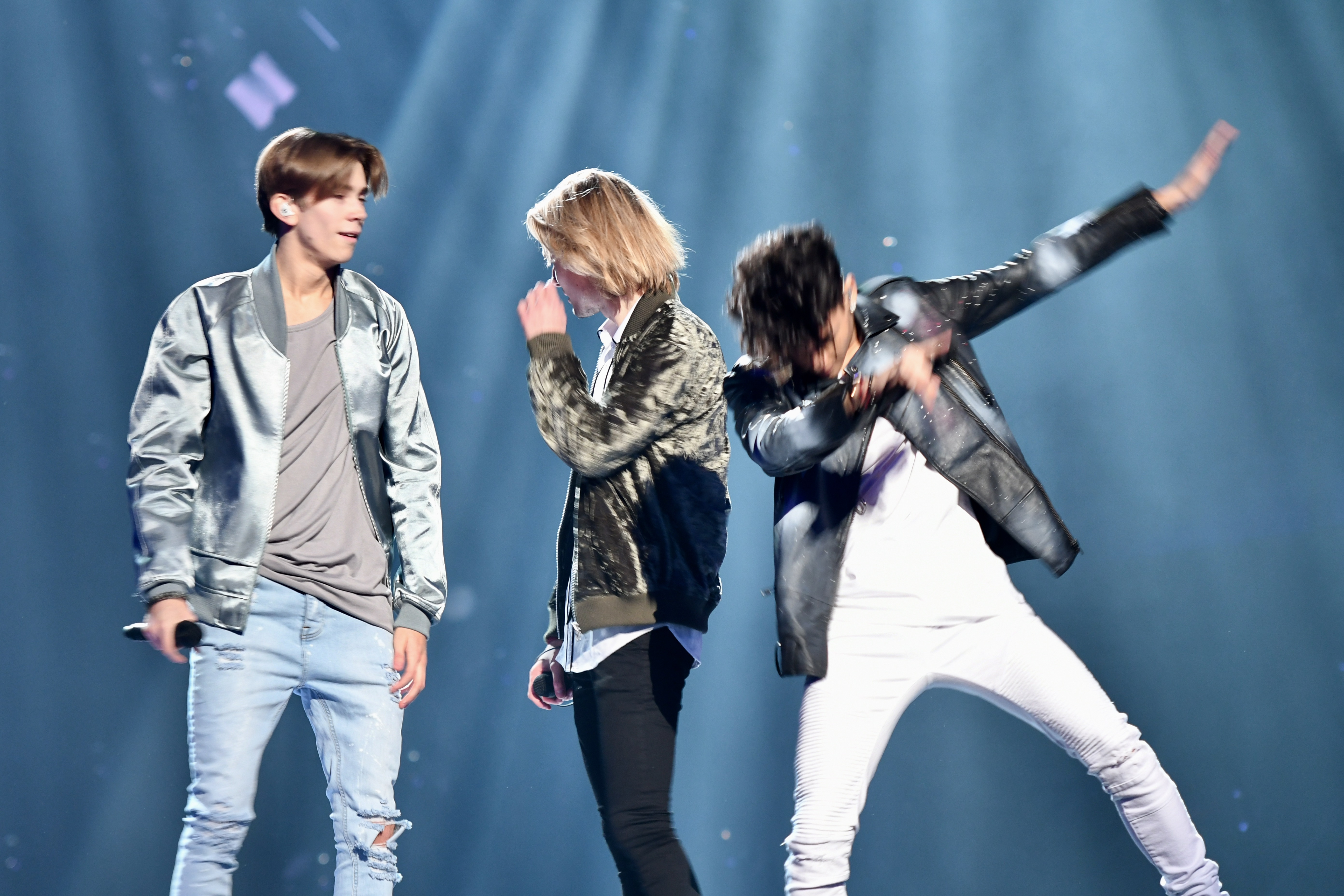 FO&O @ Melodifestivalen 2017